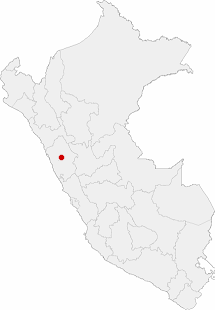 Location of the city of Huaraz in Peru (map)